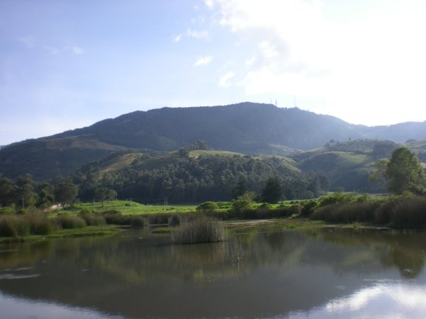 Manjuy Hill at Facatativa Colombia